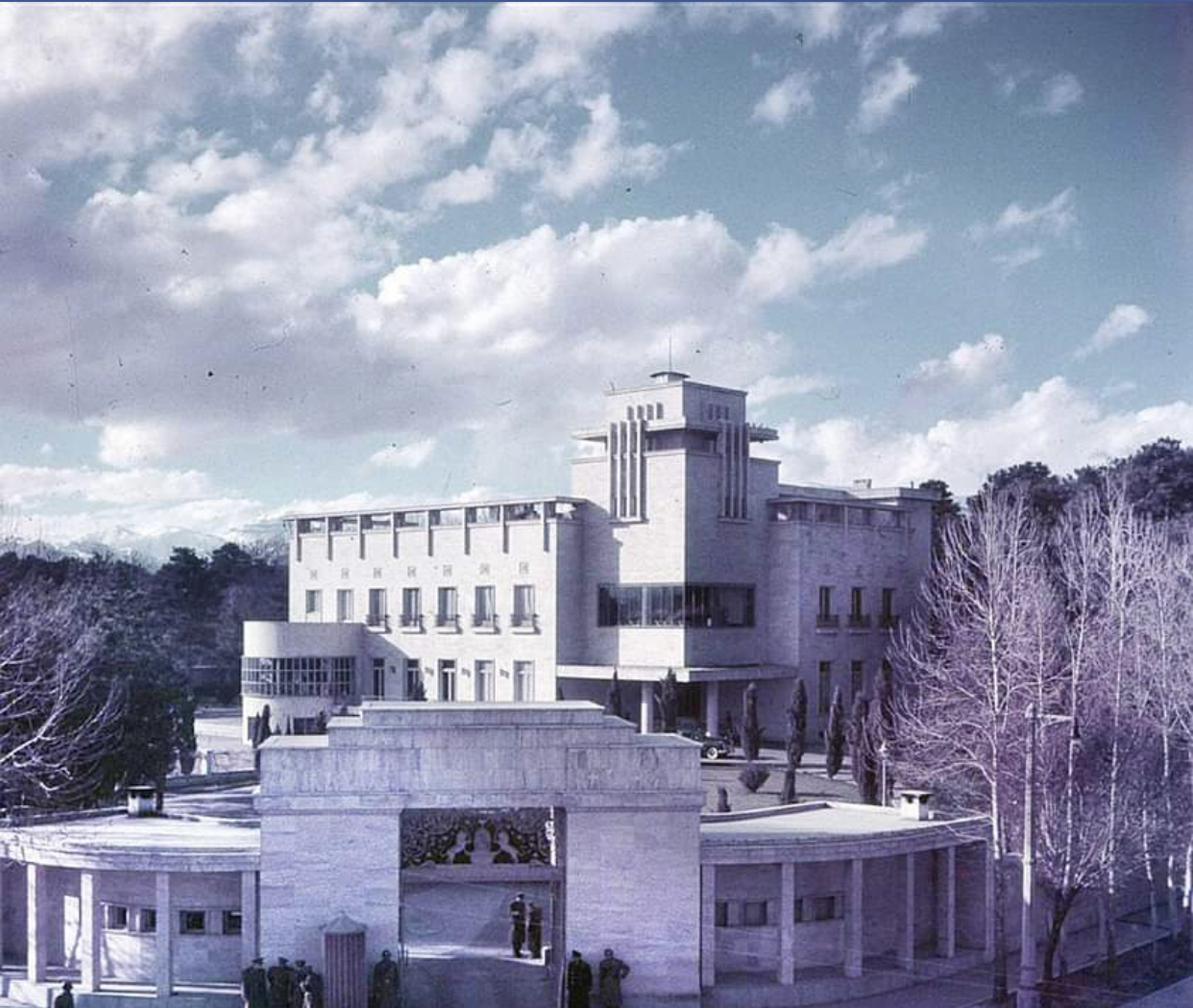 Ekhtesasi Palace, a former palace for Crown Prince during Pahlavi dynasty. Using for presidential administration after 1979